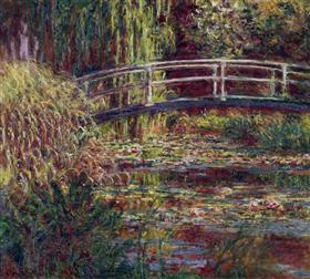 Work by Claude Monet